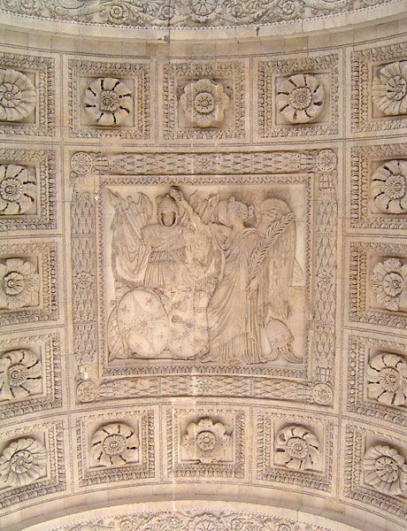 Coffered soffit on the Arc de Triomphe du Carrousel, Paris, France